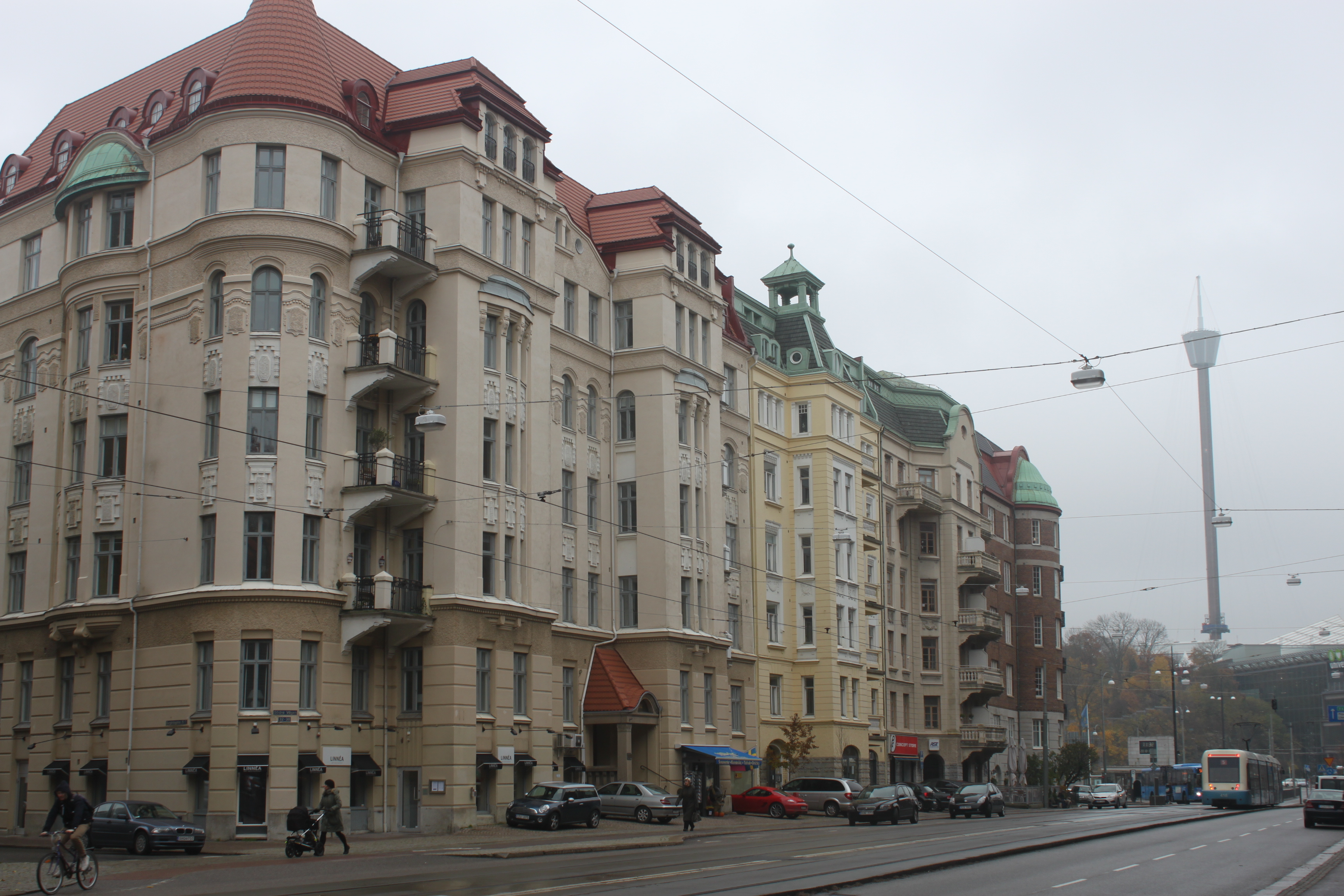 Södra Vägen in Gothenburg, Sweden.